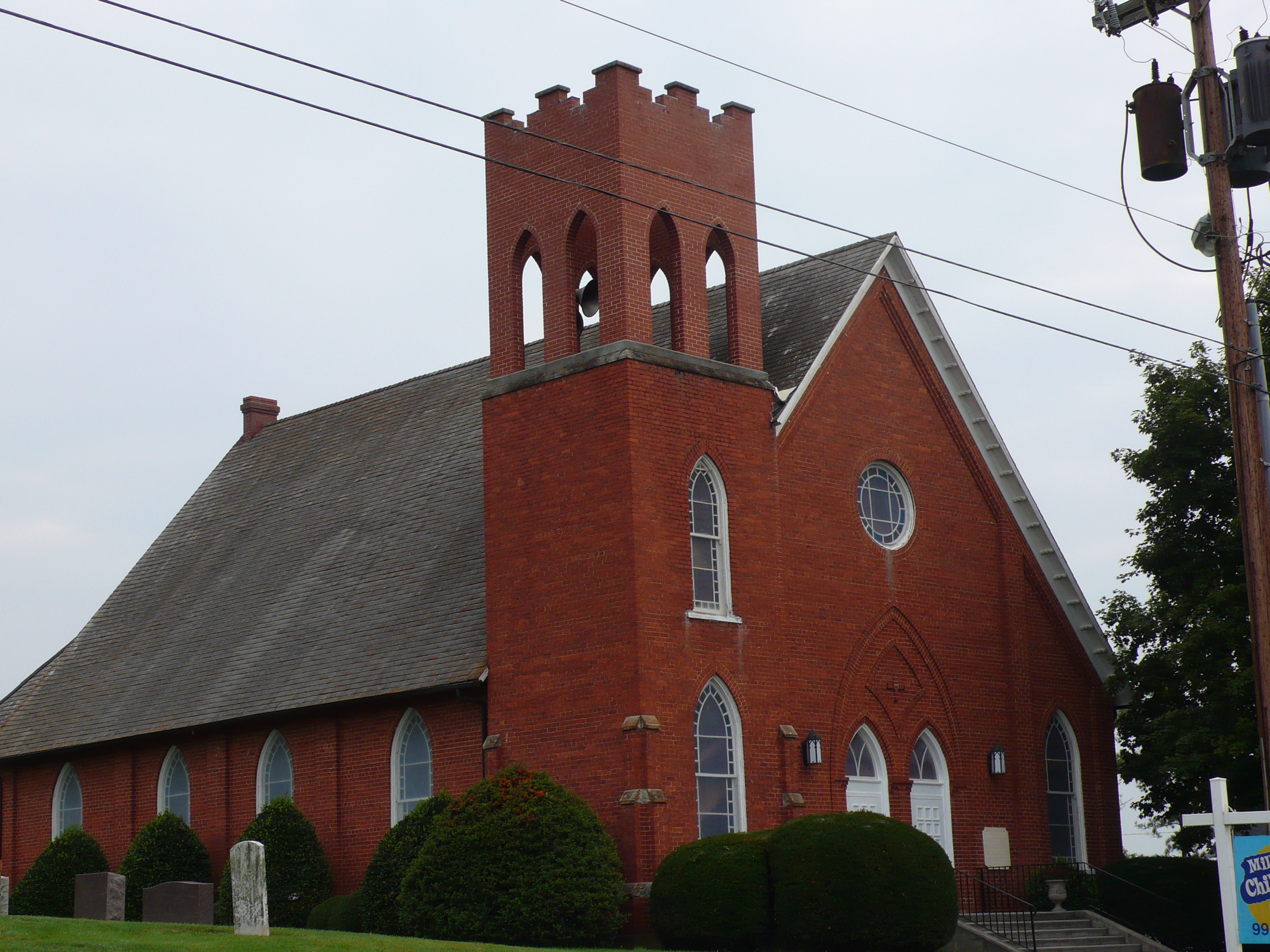 The Mill Creek Baptist Church near Troutville, Virginia.